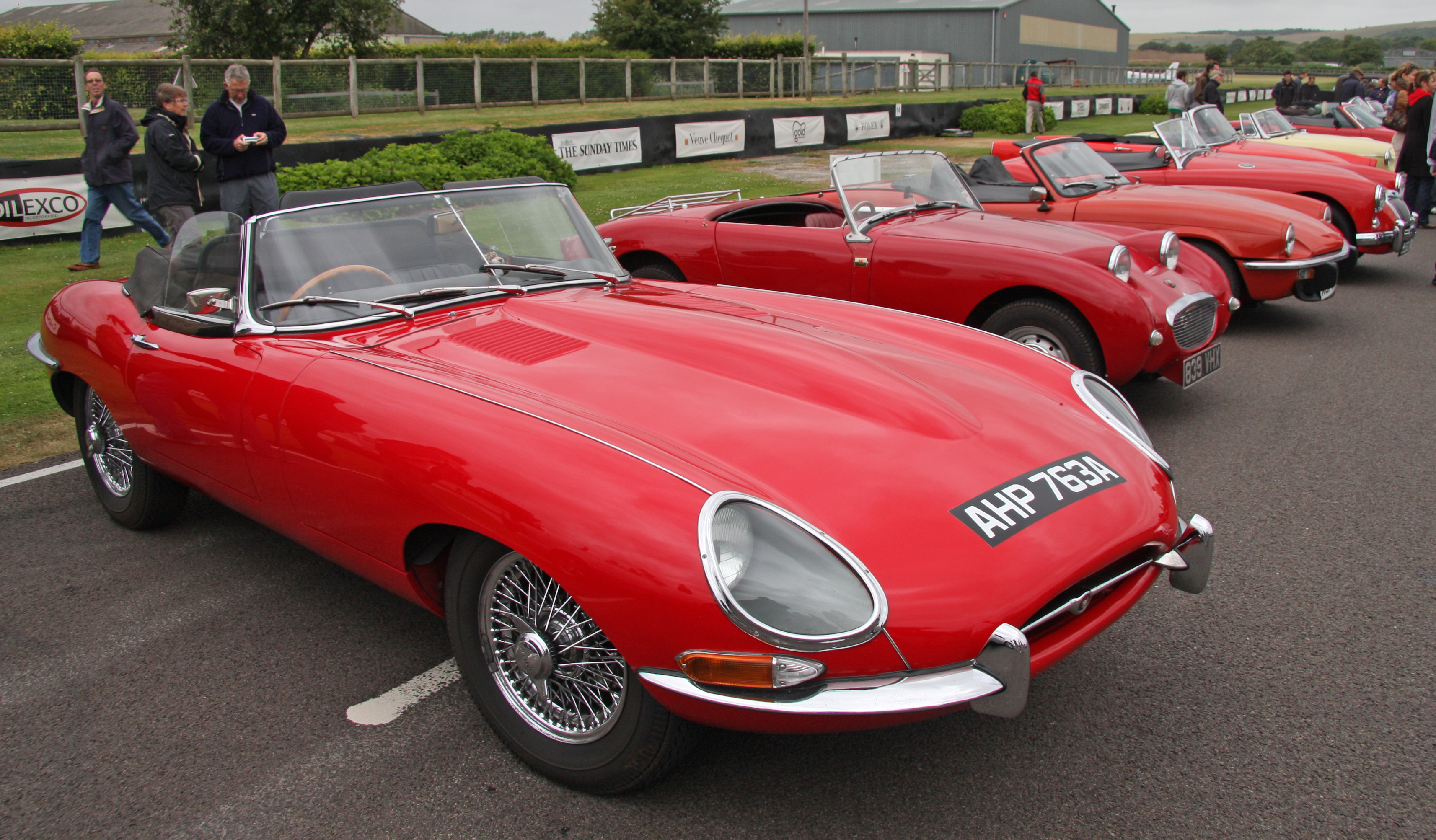 From the days when there were many British cars